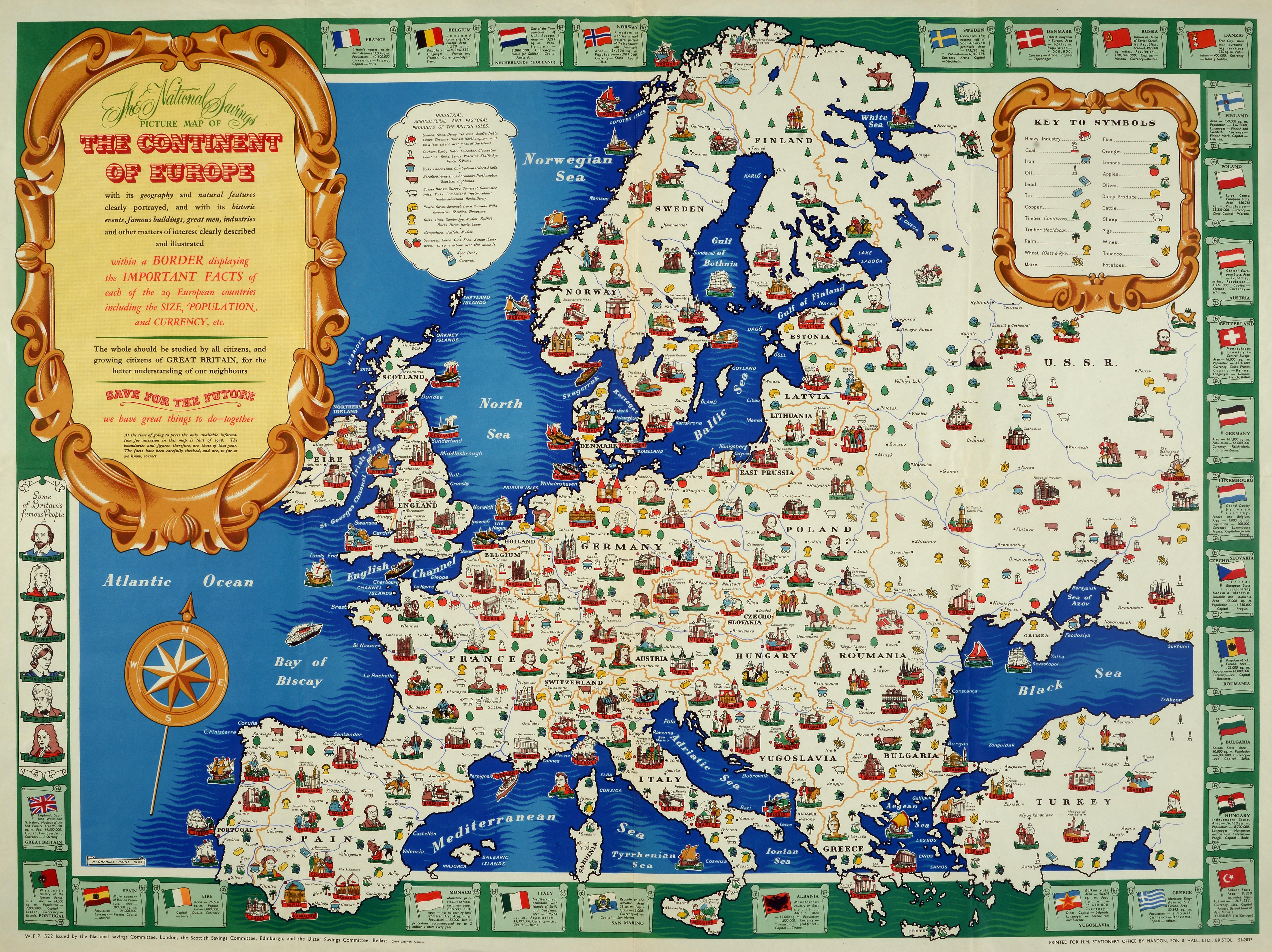 Description: 'The National Savings Picture Map of the Continent of Europe.' Date: 1946 Our catalogue Reference: NSC 5/198